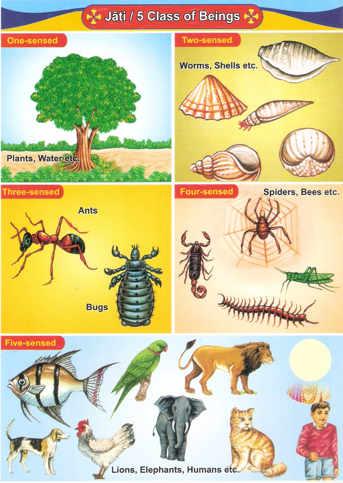 This image illustrates the Hierarchy of beings on the basis of senses as per Jain scheme of classification